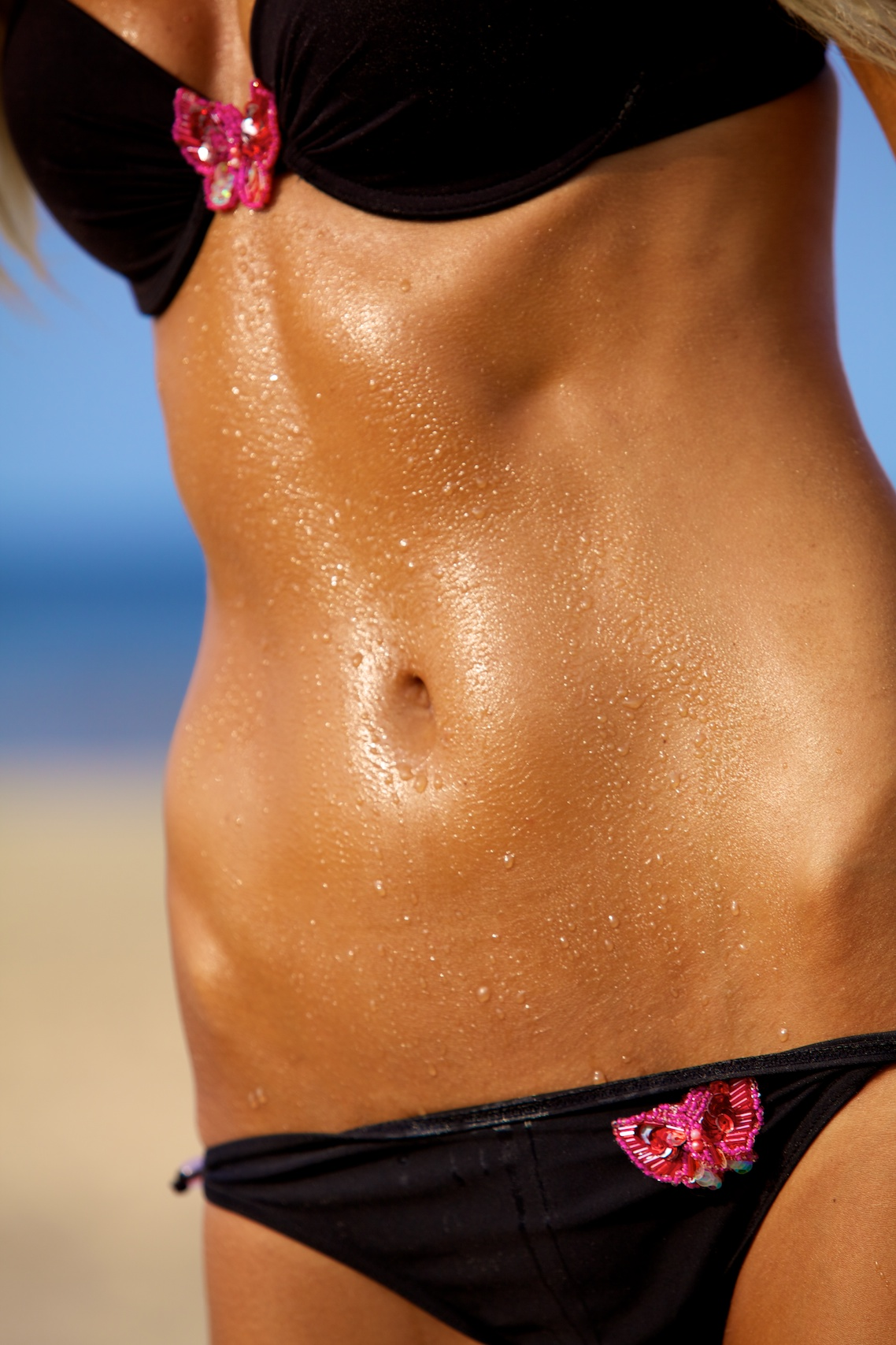 Female model close-up.